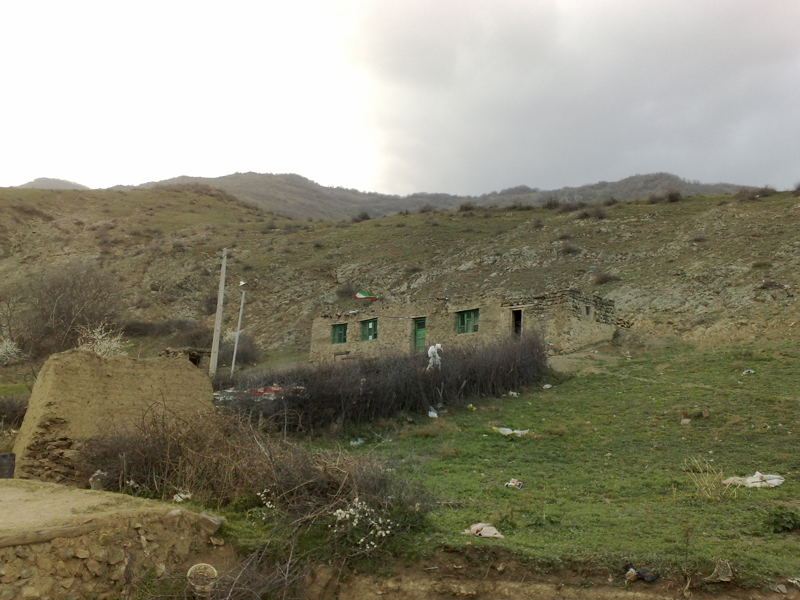 The photo is a view of Abbasabad village. It has also been published on Panoramio with the title "My School"